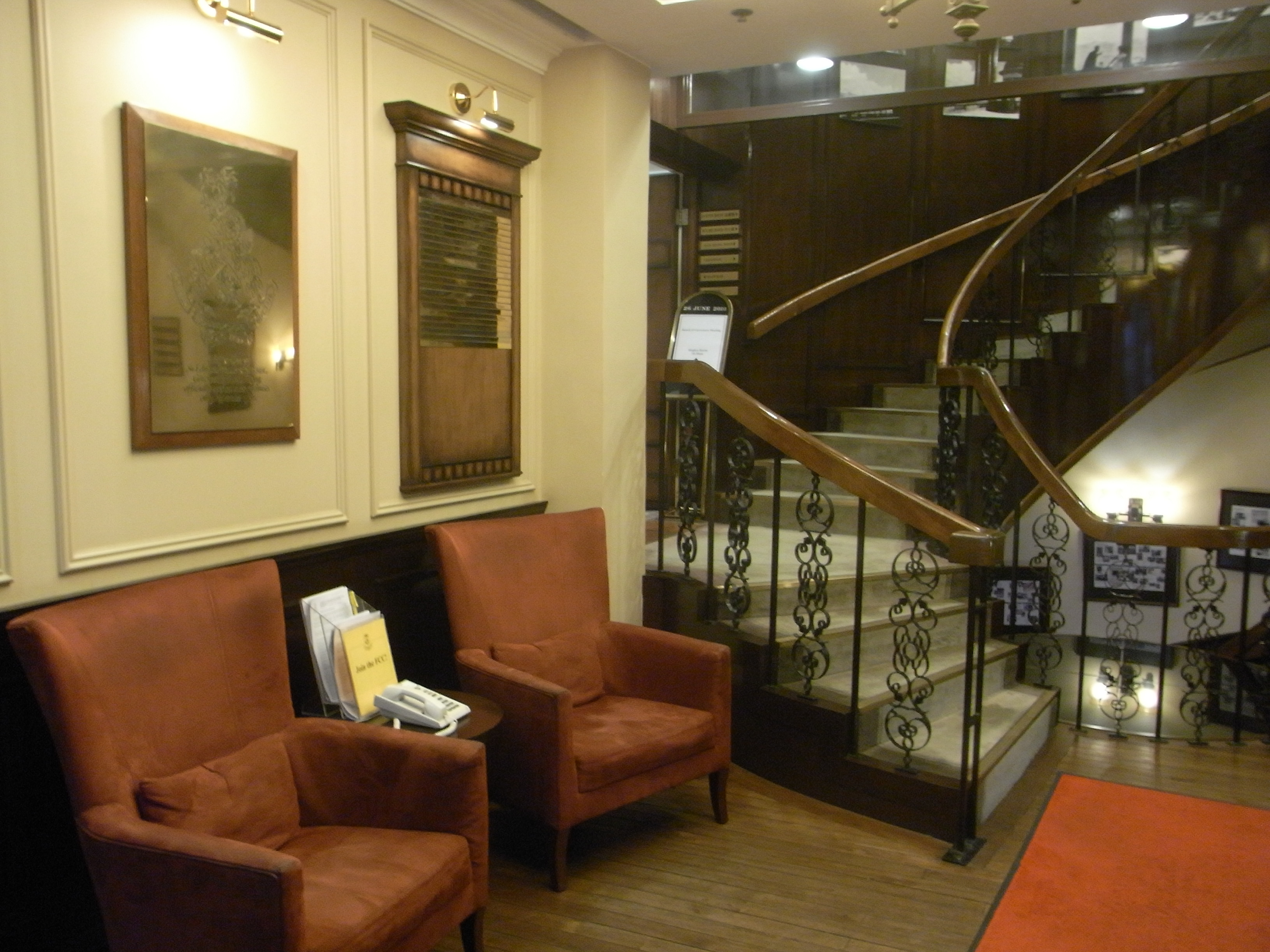 中環藝穗會